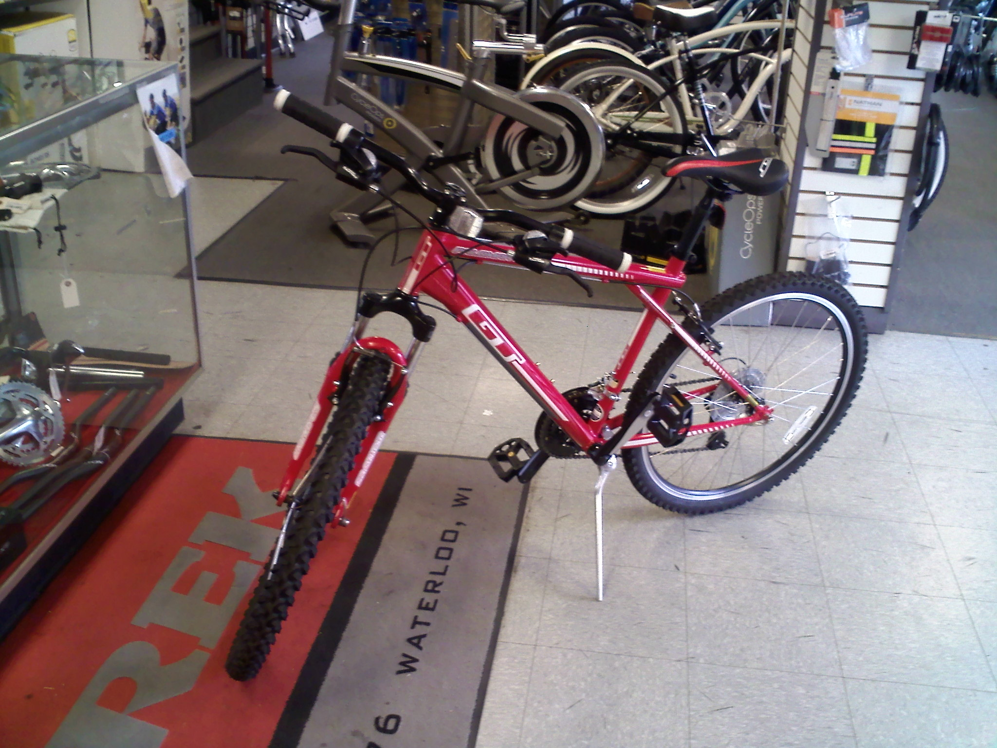 This is a picture of the new (2012) GT Palomar MTB.